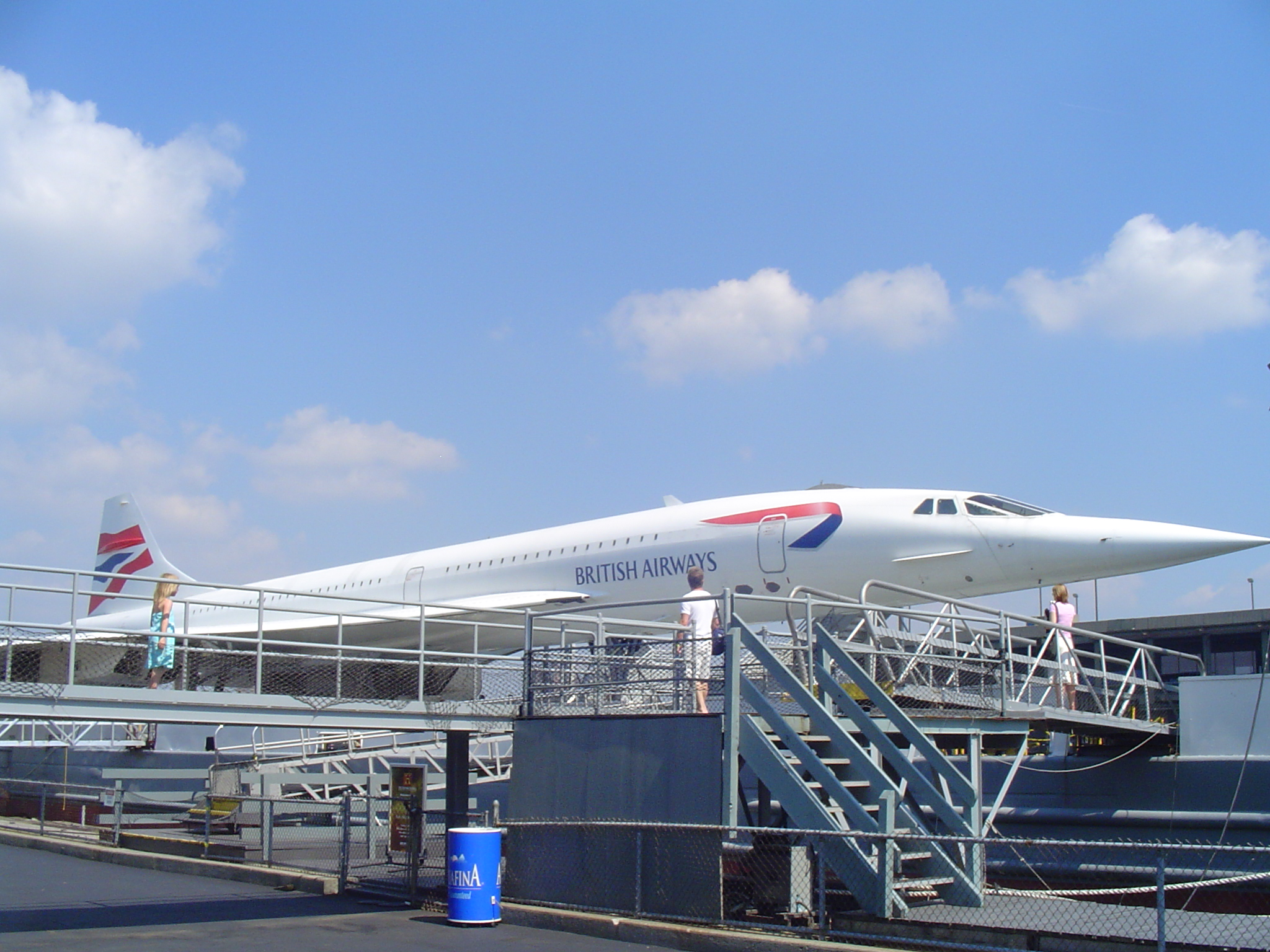 Concorde